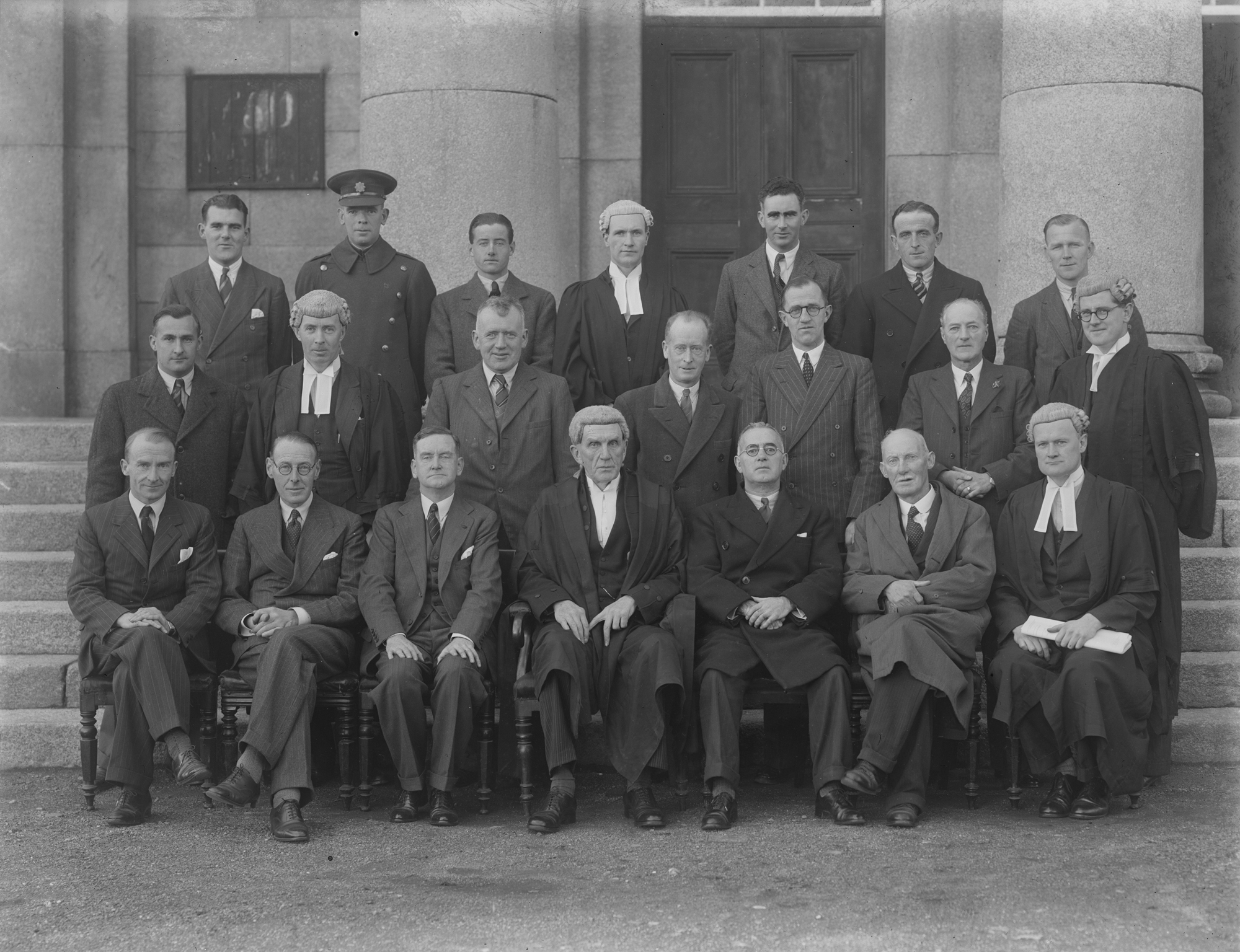 A Poole group shot of a Judge and the other players in a court including a fine looking young Garda outside a courthouse somewhere. With thanks to today's contributors, in particular [/photos/gnmcauley/ Niall McAuley], [/photos/beachcomberaustralia/ beachcomberaustralia], [/photos/91549360@N03/ O Mac], and [/photos/johnspooner/ John Spooner], we have corroboration of date, location and subject. In short, the image was very likely taken at Waterford Courthouse, in 1944, possibly around the retirement of Judge James Sealy (1876-1949). Judge Sealy had a long legal career (and some amateur sporting experience), with his time on the bench marked by some periods of levity (and otherwise) - as per the various snippets and newspaper accounts offered in the comments below.... Photographer: A. H. Poole Collection: Poole Photographic Studio Date: ca. 13 November 1944 NLI Ref: POOLEWP 4473a You can also view this image, and many thousands of others, on the NLI’s catalogue at